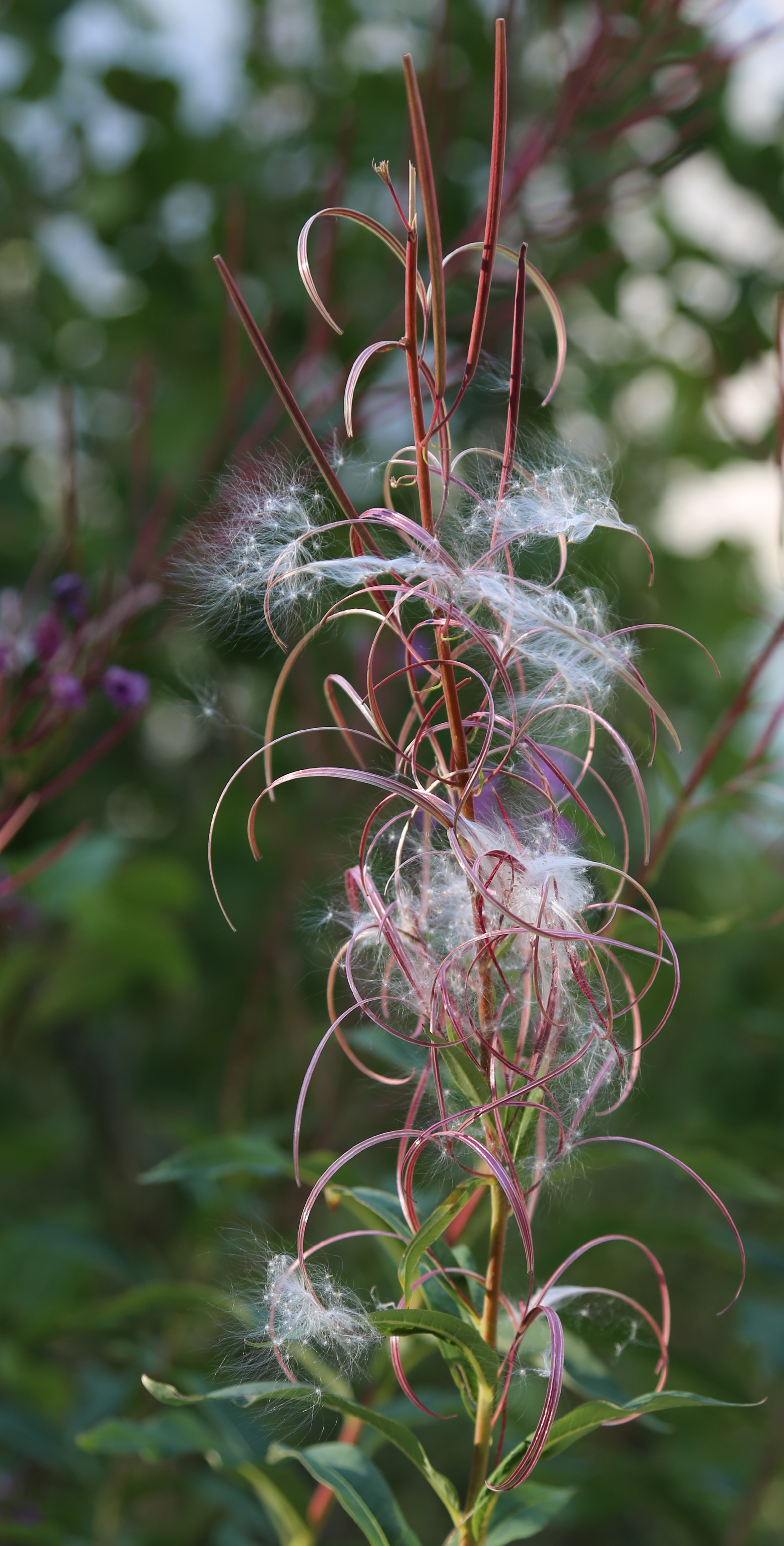 Fireweed (Epilobium angustifolium, now Chamerion angustifolium), late-summer flower-stalk with leaves below and seed-pods in several stages: intact, straight, purple seed-pods at top of stalk, strongly curved open seed-pods, and nearly-open pods with seeds in the process of expanding their white parachutes to become airborne. At 9,700 ft (3,000 m) along the Blue Lake trail above Lake Sabrina, John Muir Wilderness, Sierra Nevada mountains, California USA.